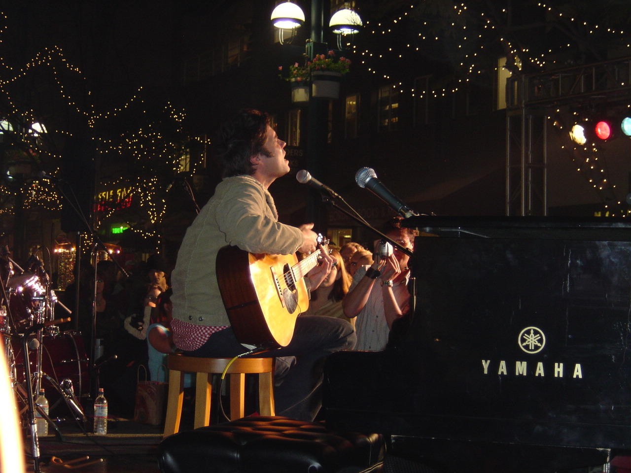 Rufus Wainwright at re-opening of Hear Music, music store on 3rd Street, Santa Monica after Starbucks takeover